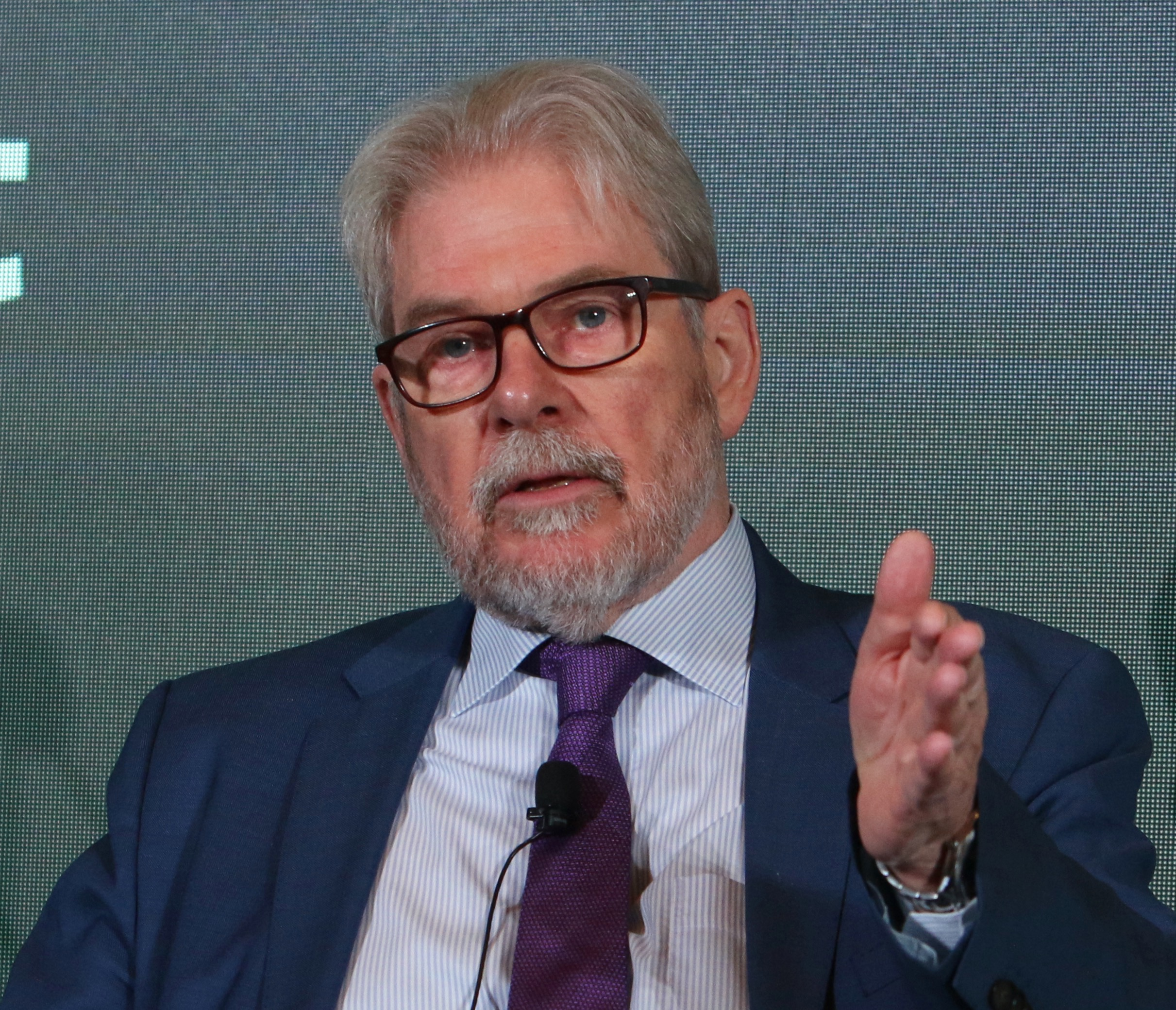 Michael Reid, Senior Editor and Columnist for The Economist, at the 23rd Annual CAF Conference (Session III: Political Shifts in Latin America: A Focus on Brazil, Mexico, and Recent Elections Throughout the Region)